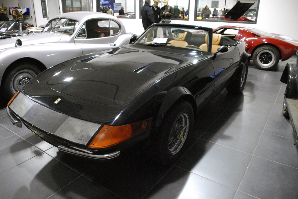 Car. Model: Ferrari 365 Daytona Spider Corvette "Miami Vice" by McBurnie Coach Works. Year: 1972-1978.